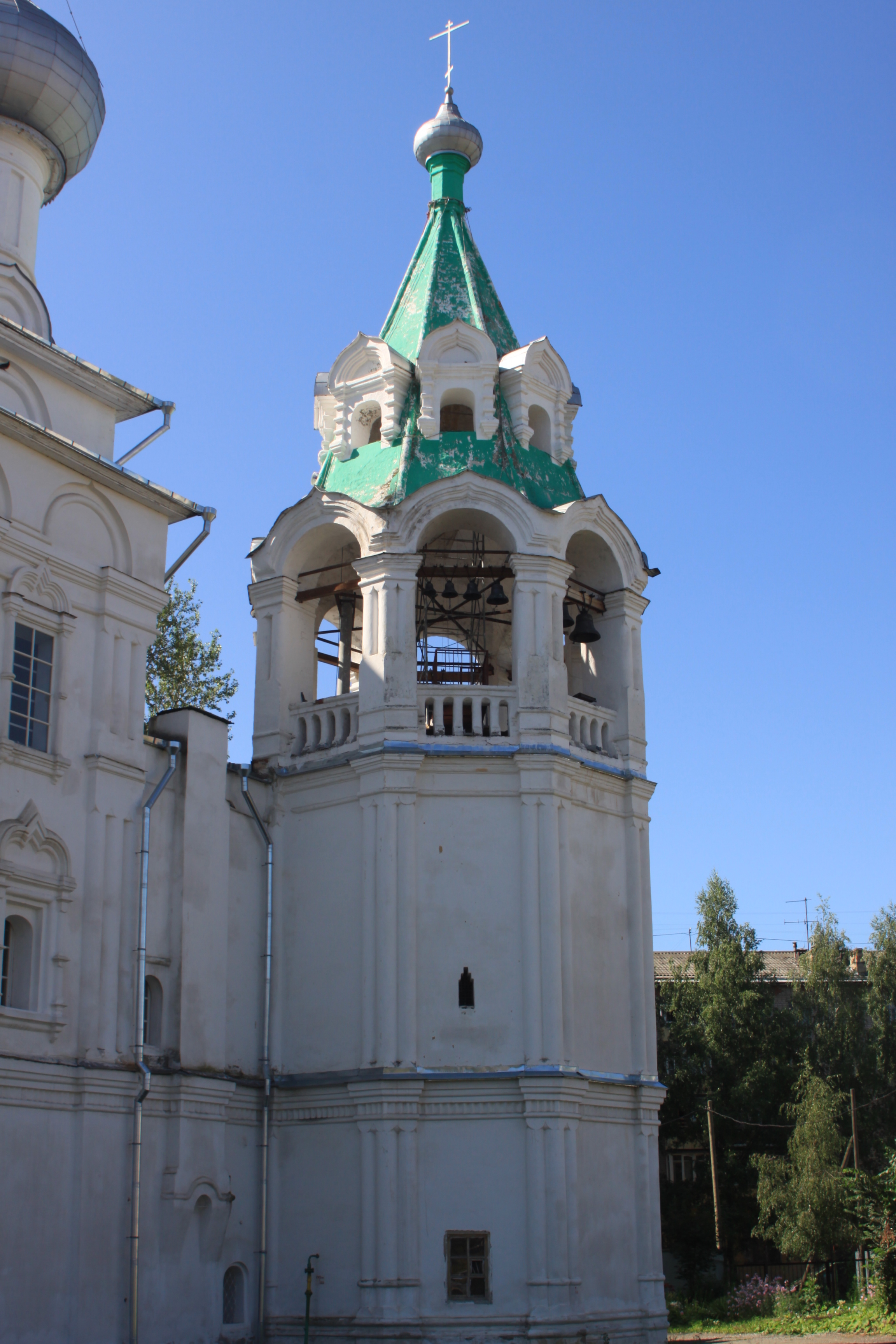 Constantine_and_Helena_Church belfry in Vologda